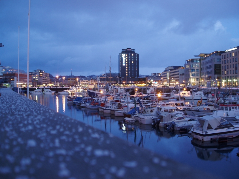 The harbour of Bodø, Norway